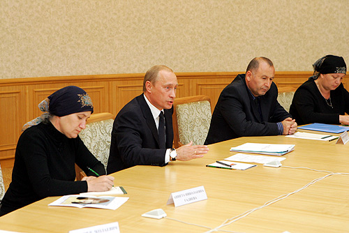 Vladimir Putin meets representatives of the comittee "Mothers of Beslan" in Kremlin on September 2, 2005.